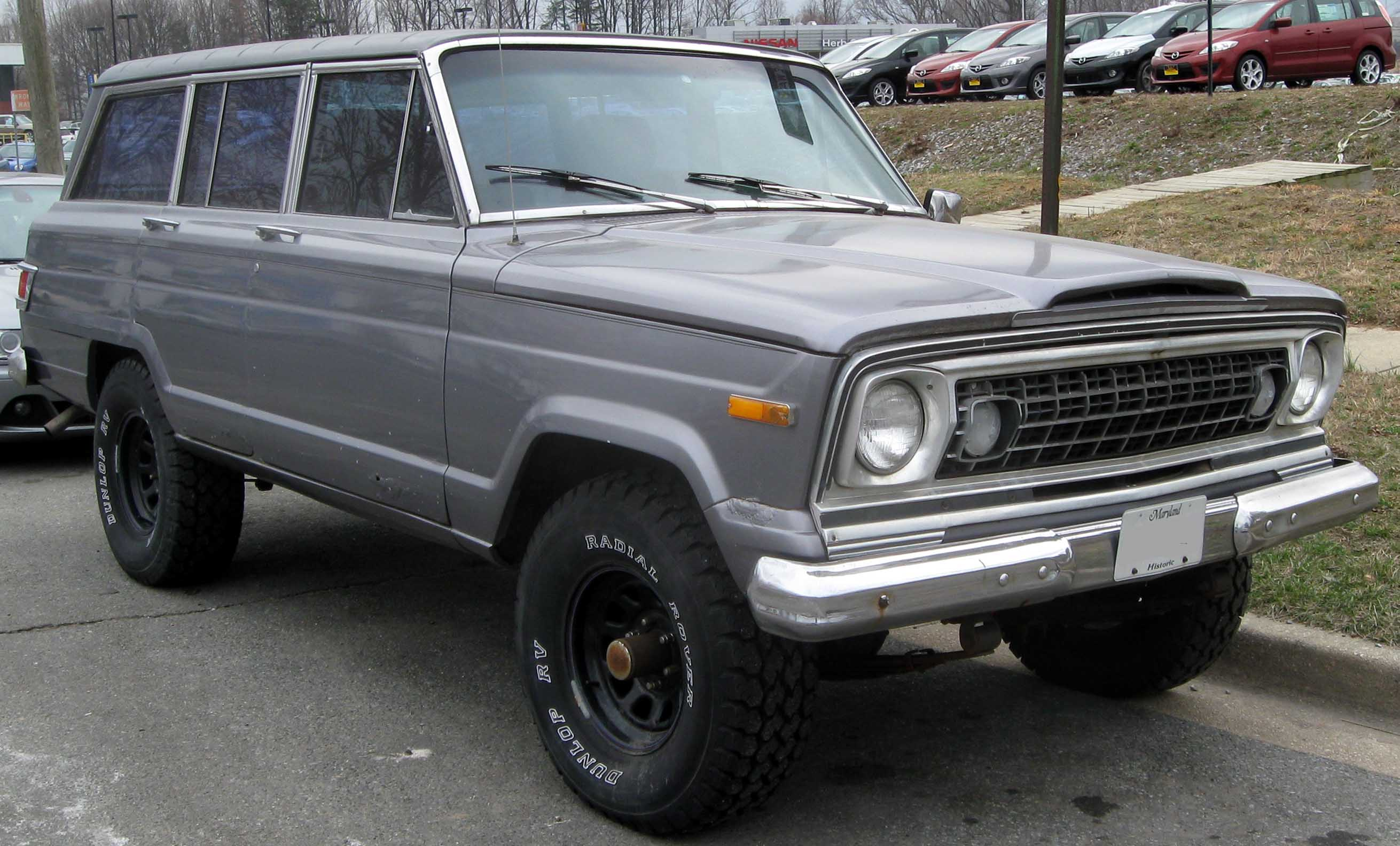 Jeep Wagoneer photographed in Silver Spring, Maryland, USA.